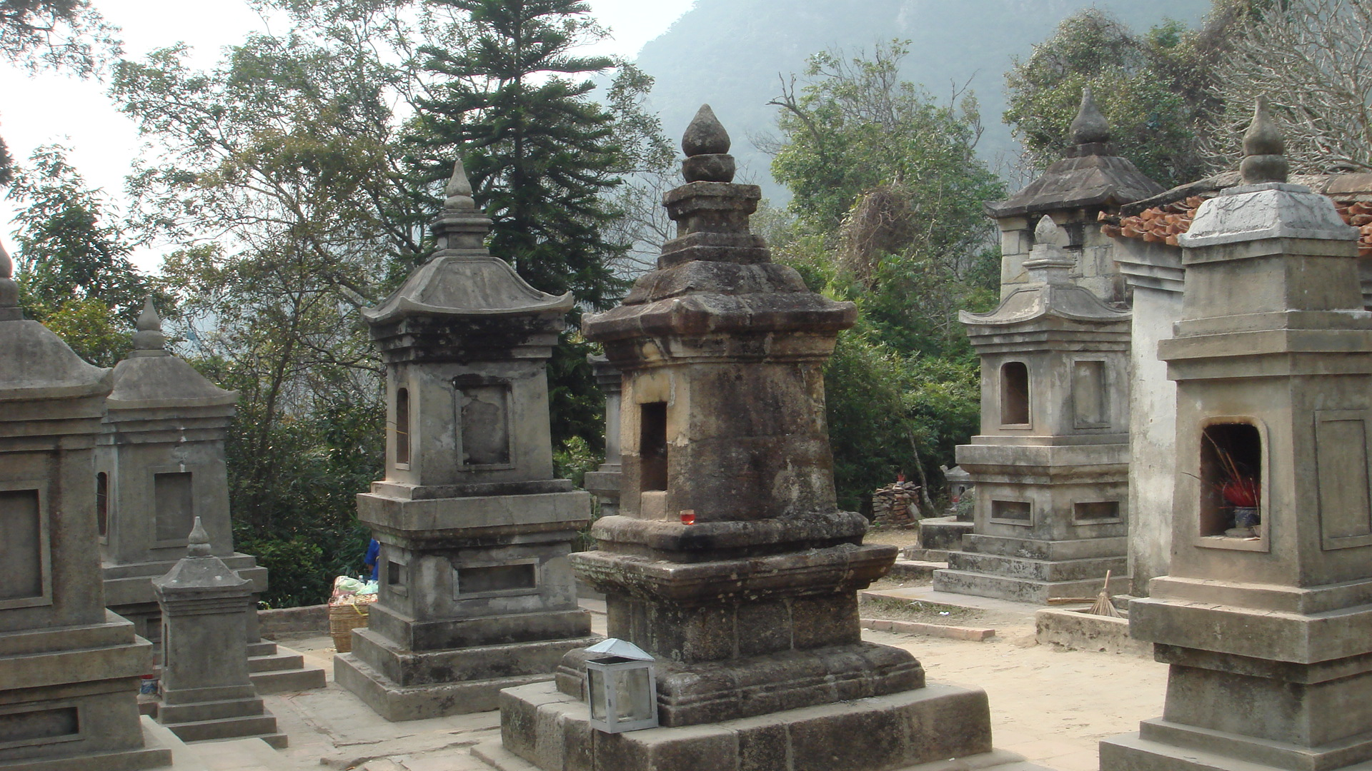 Đồng pagoda forest (stupas), mount Yên Tử, Quang Ninh province.